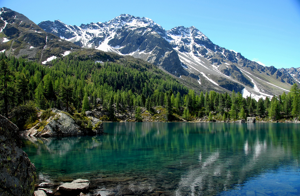 Lago di Saoseo, Val Poschiavo